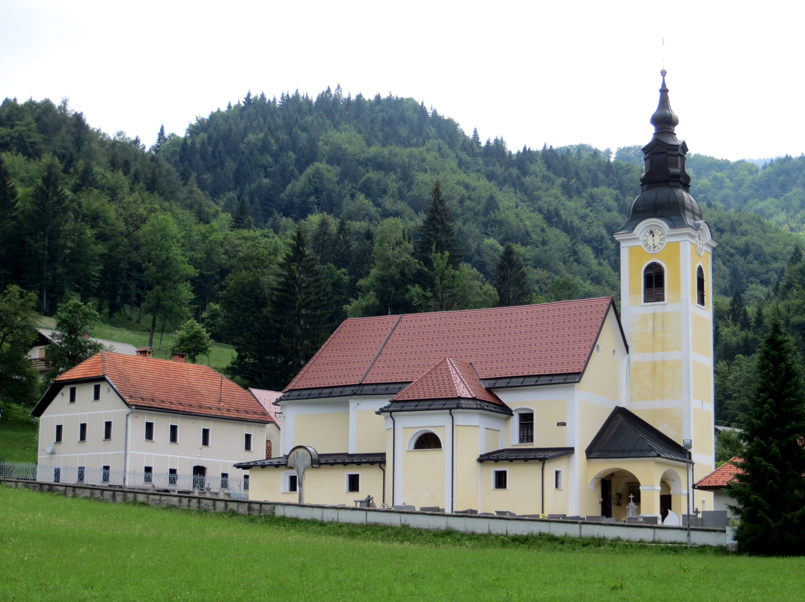 Saint Anthony the Hermit Church in Špitalič, Municipality of Kamnik, Slovenia